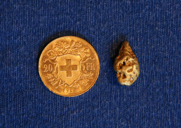 Gold Nugget, Swizerland